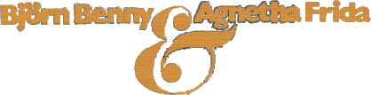 A homemade 1st ABBA logo